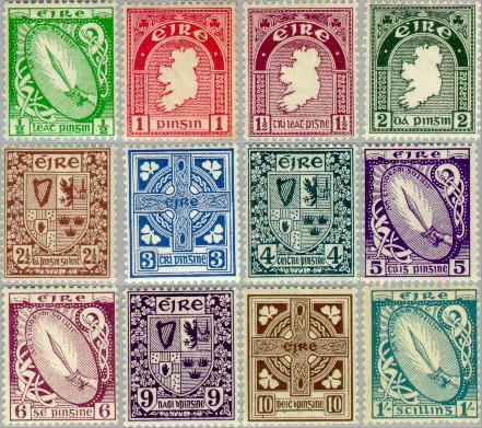 1922-23 First Definitive Series of Irish postage stamps; 12 stamps up to 1 shilling value.